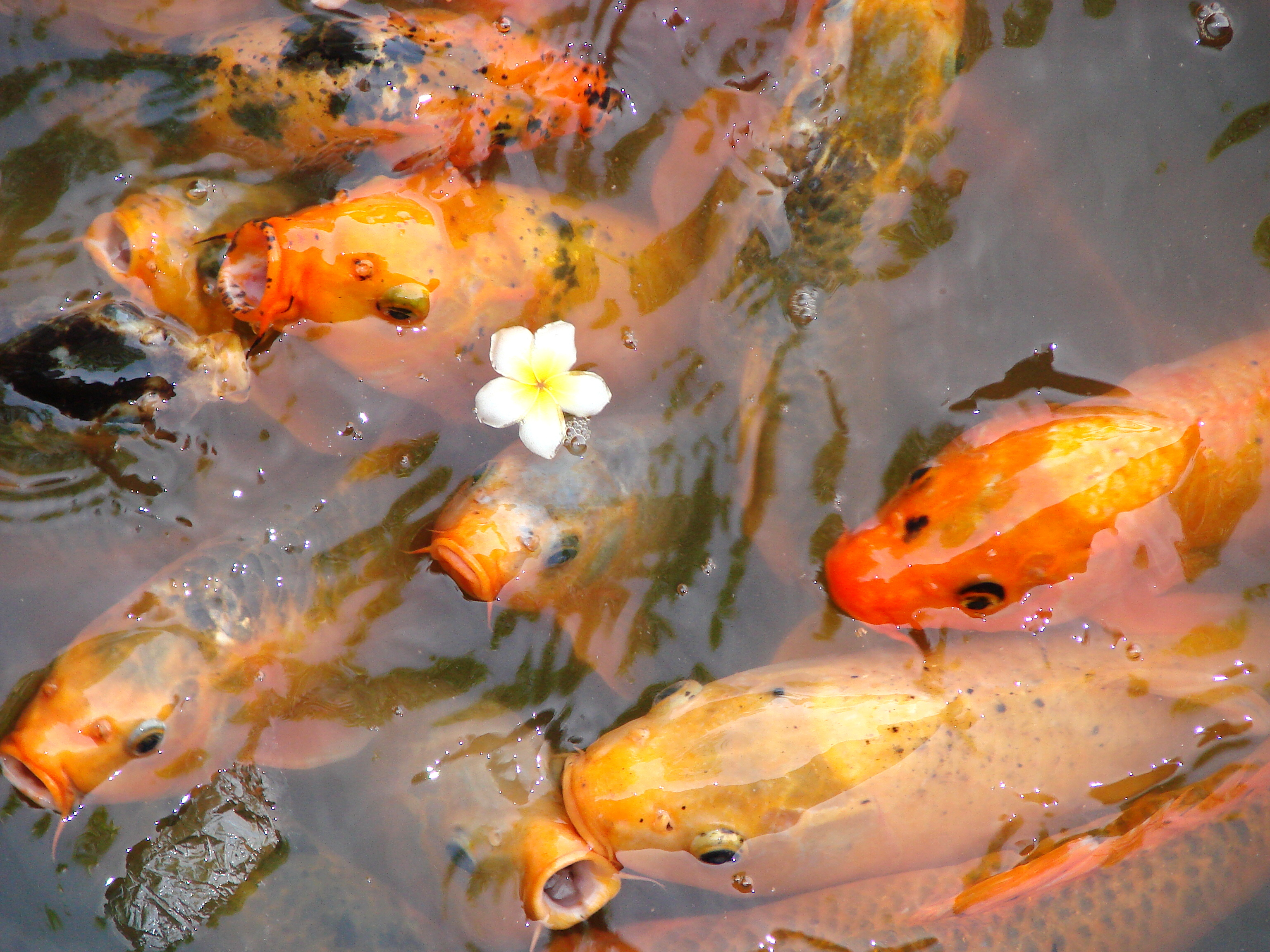 Fish in pond, the Citadel (Royal Enclosure), Hue, Vietnam. July 2009.